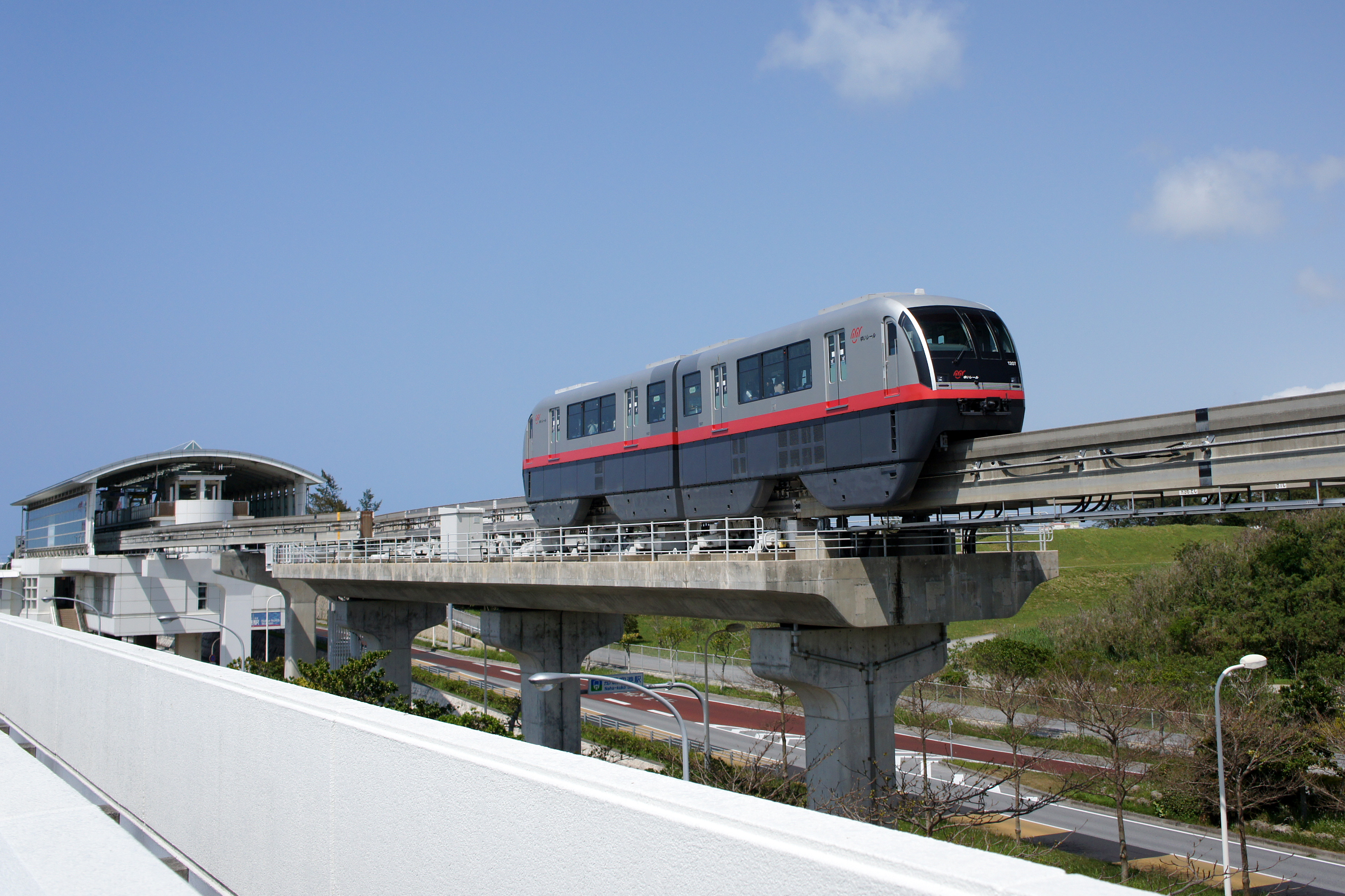 Naha-kūkō Station, in Naha, Okinawa prefecture, Japan